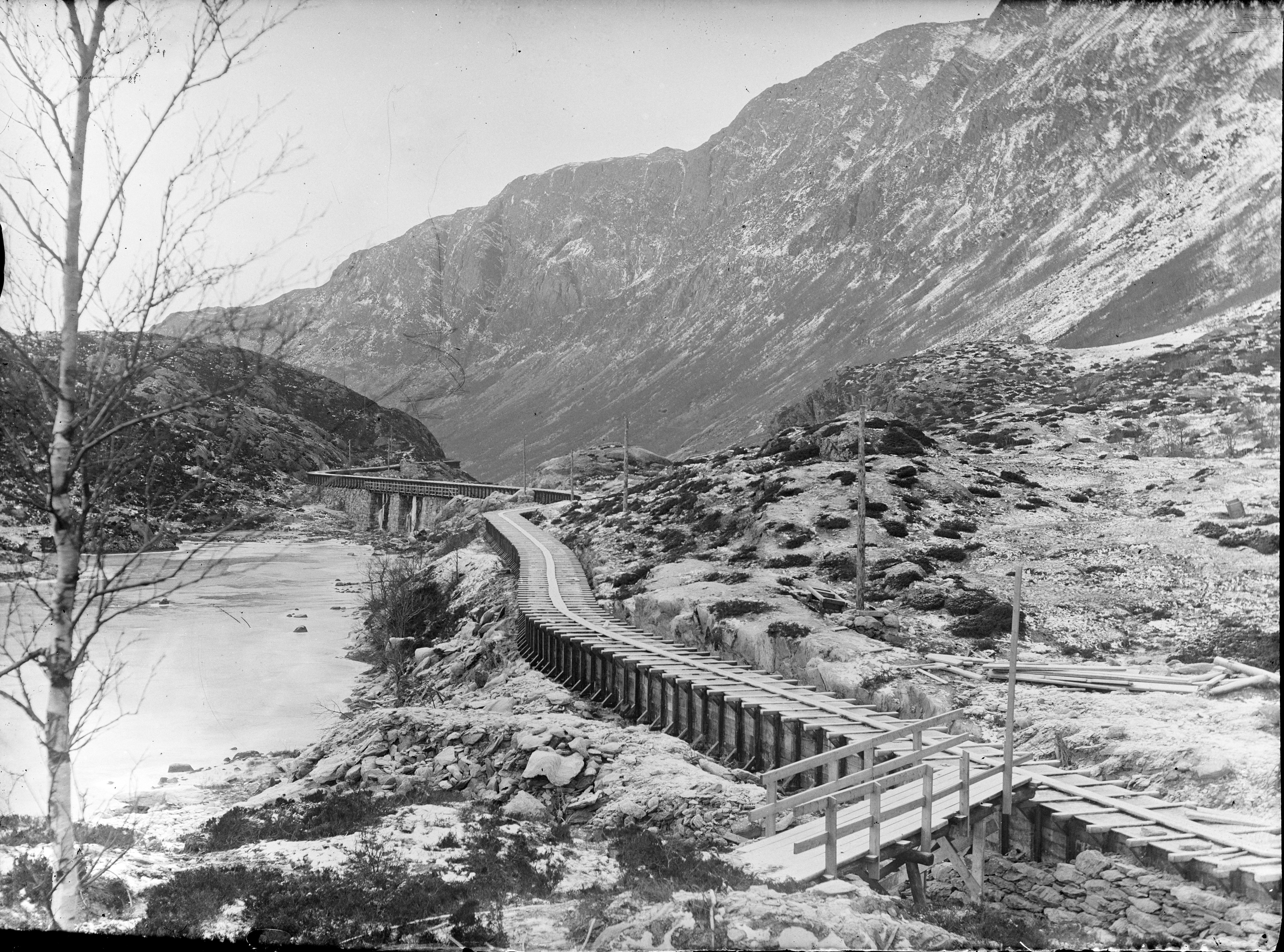 View of the "plankerenne", a wooden construction built for transporting goods to/from the dams. Here we see part of the Liljevatnet lake and the bridge crossing it. The milkmaids from the Stang farms also used this bridge when they were bringing the cows to their summer pasture. Photographer Paul Stang. Contributed by Sogn og Fjordane County Archives.